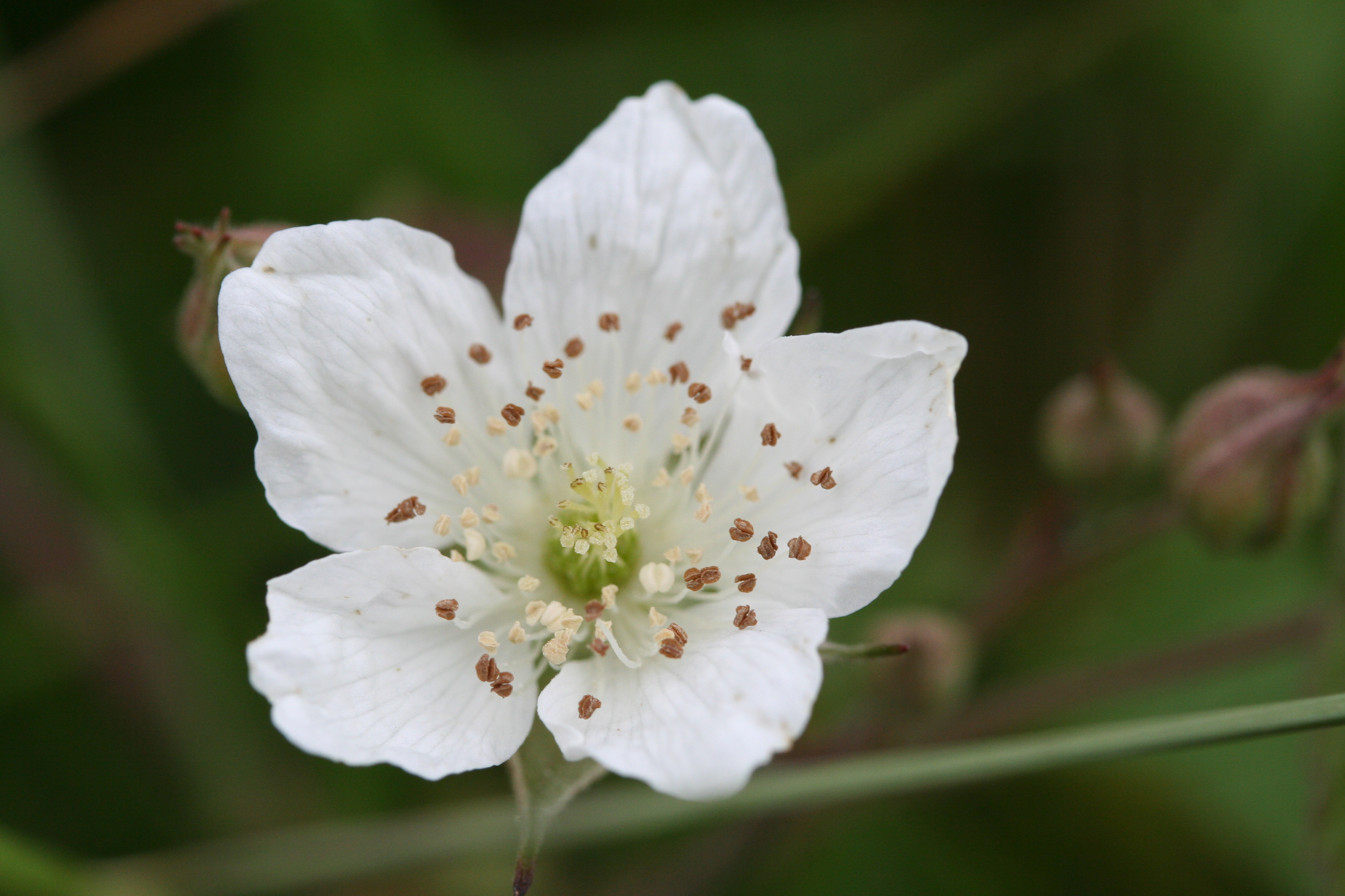 Rubus caesius 3 June 2006 IJmuiden, the Netherlands